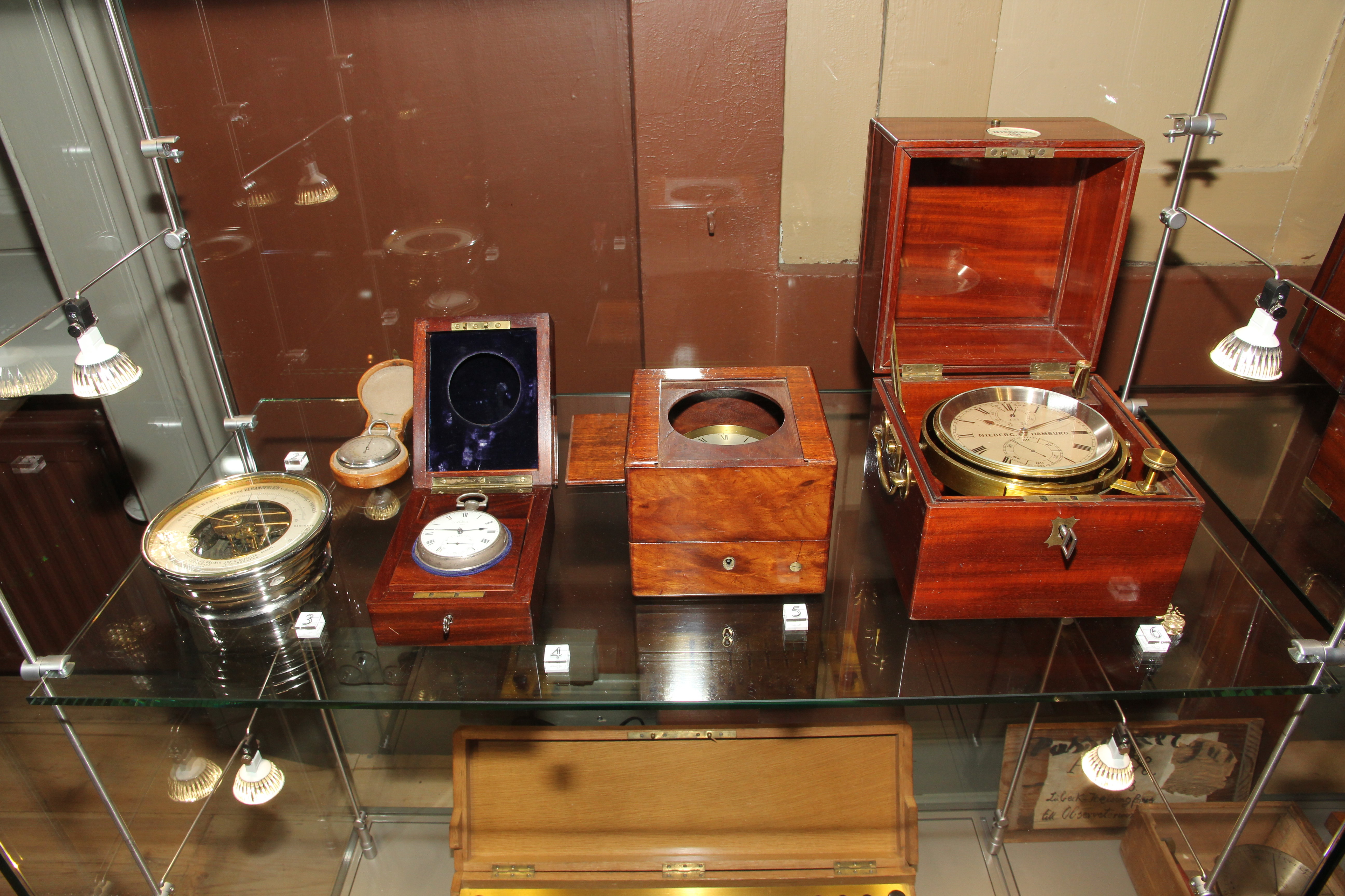 Chronometers and aneroid barometers in Helsinki observatory. 2: aneroid barometer, mid-19th century; 3: aneroid barometer, Greiner-Geissler, before 1875; 4: chronometer, John N. Arnold, 1807; 5: chronometer, C.F. Tiede ca. 1836; 6: choronometer, Nieberg, 1850-1950.